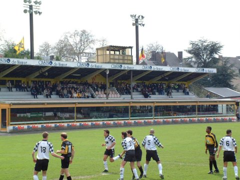 Stade Michel Soulier, 2001, match of UR Namur vs. KAS Eupen